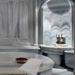 Le Kalon Spa at The Bentley London